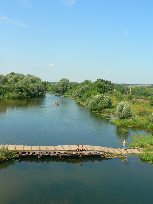 Pyana river in Ichalki